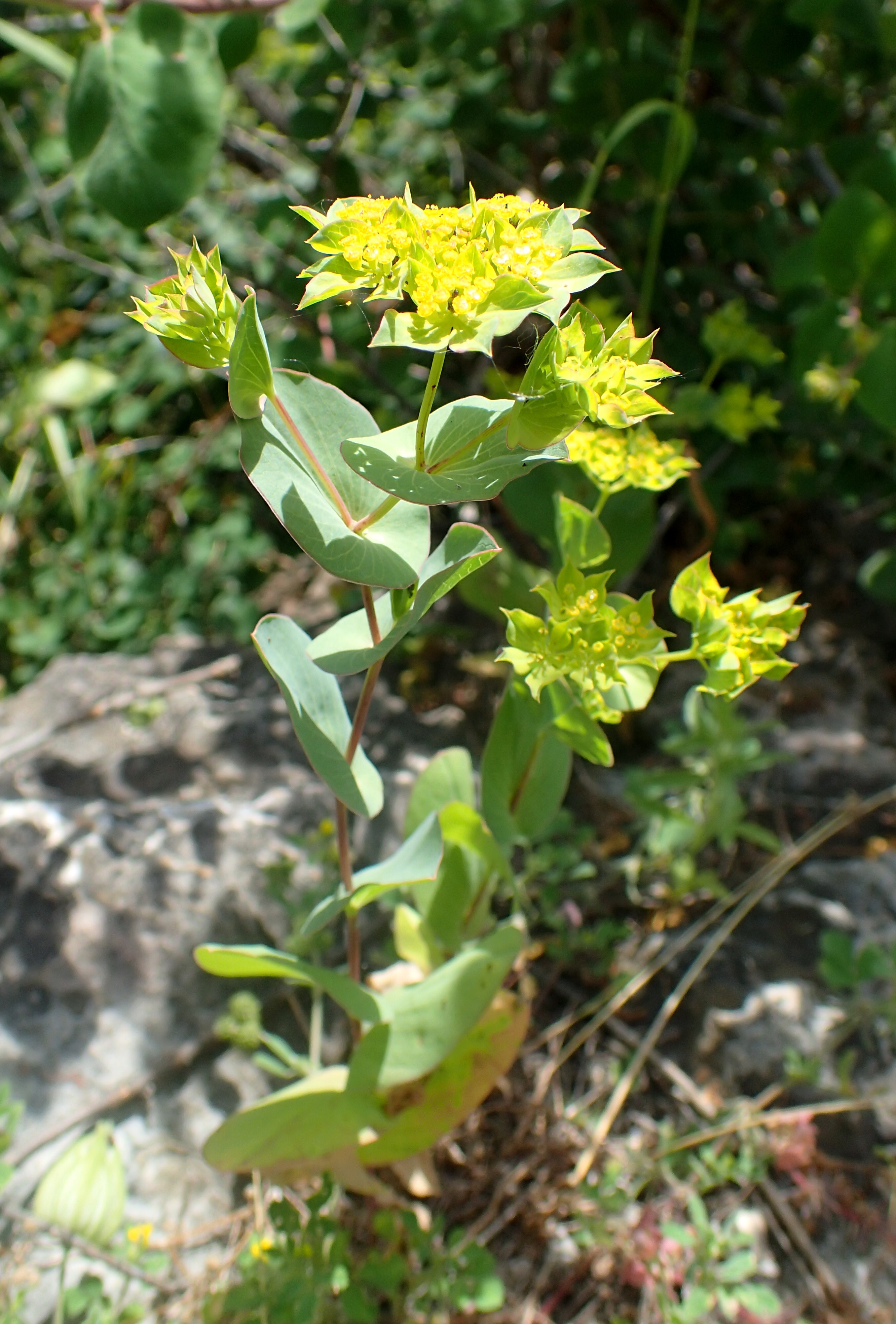 Bupleurum rotundifolium in vicinity of Tatev, Armenia